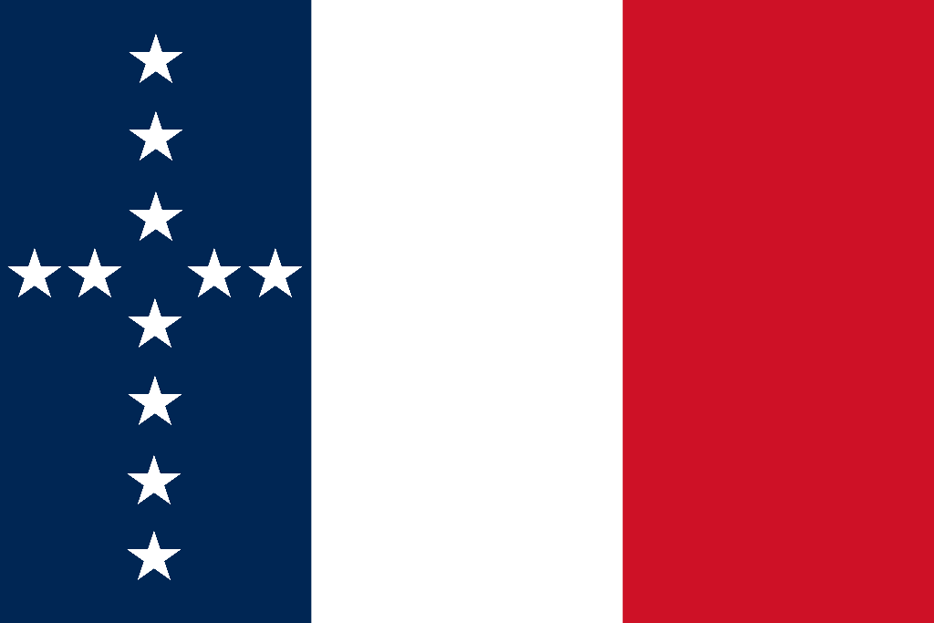 This file represents an 11-star variant of the Confederate States Revenue Service's ensign, this flag flew as the Ensign/Command flag of the CSS Seabird, the flagship of Captain William F. Lynch's Mosquito Fleet.